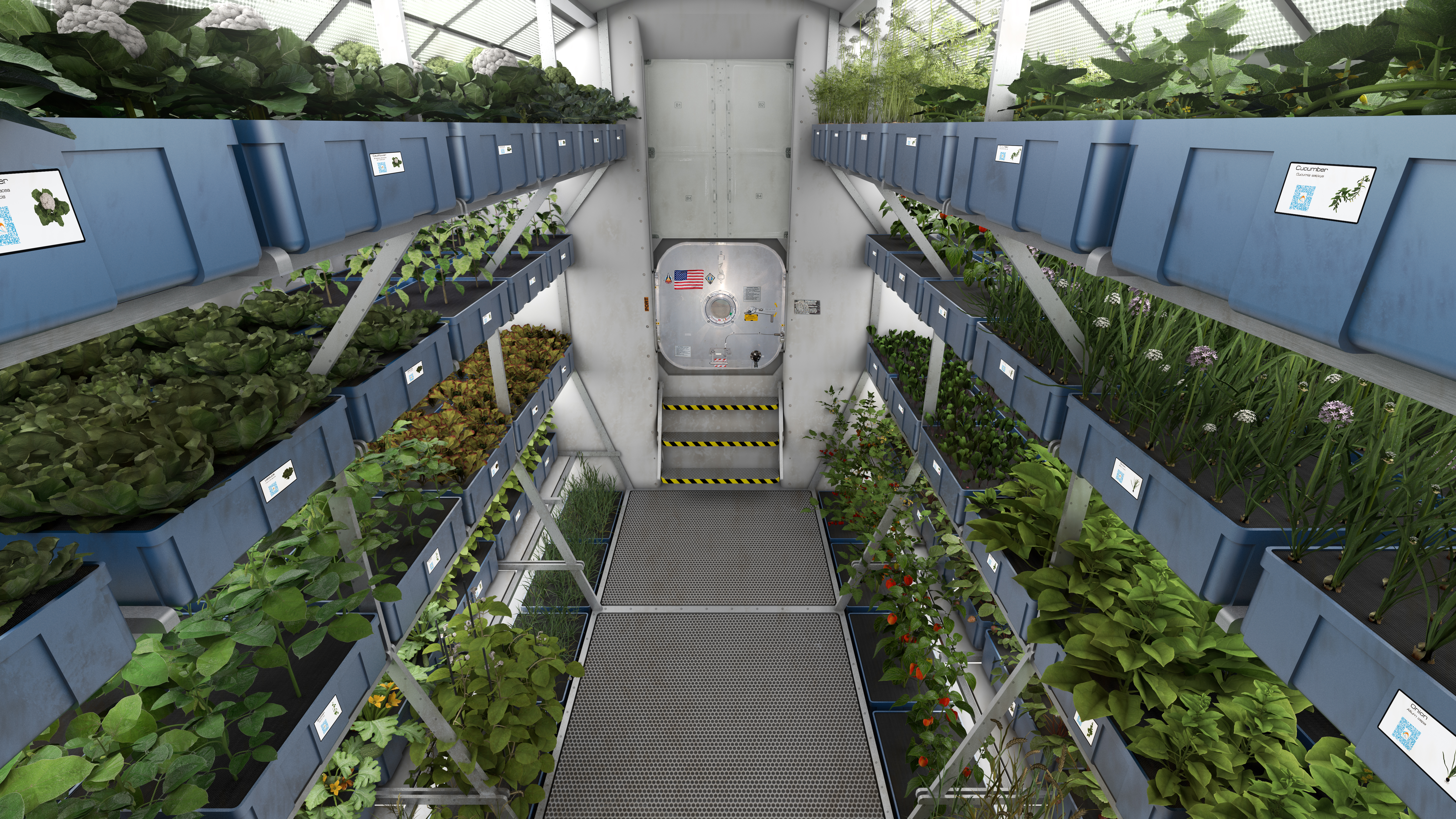 NASA plans to grow food on future spacecraft and on other planets as a food supplement for astronauts. Fresh food, such as vegetables, provide essential vitamins and nutrients that will help enable sustainable deep space pioneering.